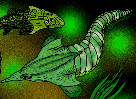 My reconstruction of the Mid Devonian agnathan Neeyambaspis enigmatica, of what is now Australia (C) Stanton F. Fink